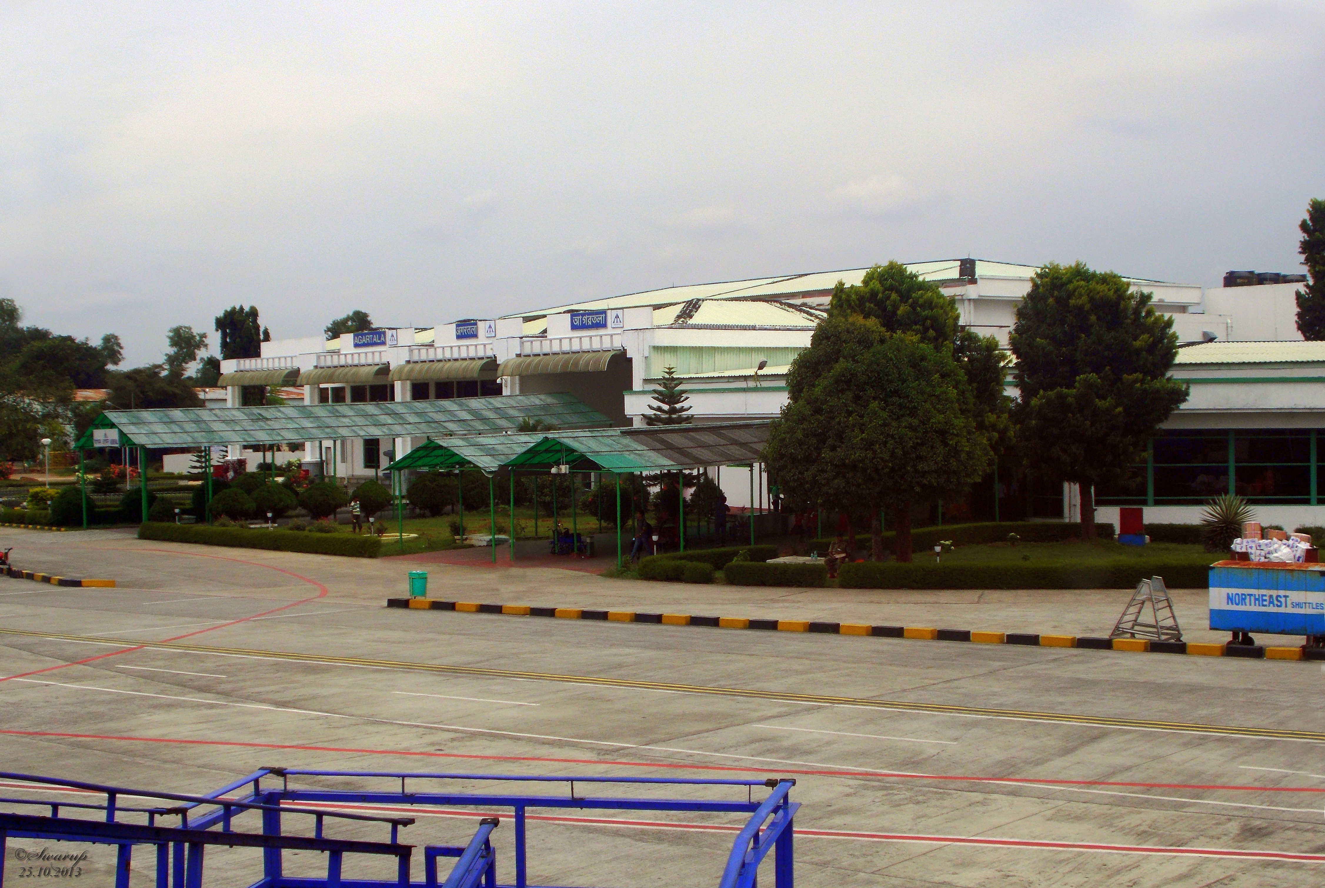 Terminal of Agartala Airport as viewed from the apron.